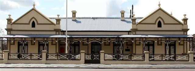 This media shows a South African Protected Site with SAHRA file reference 9/2/258/0010.